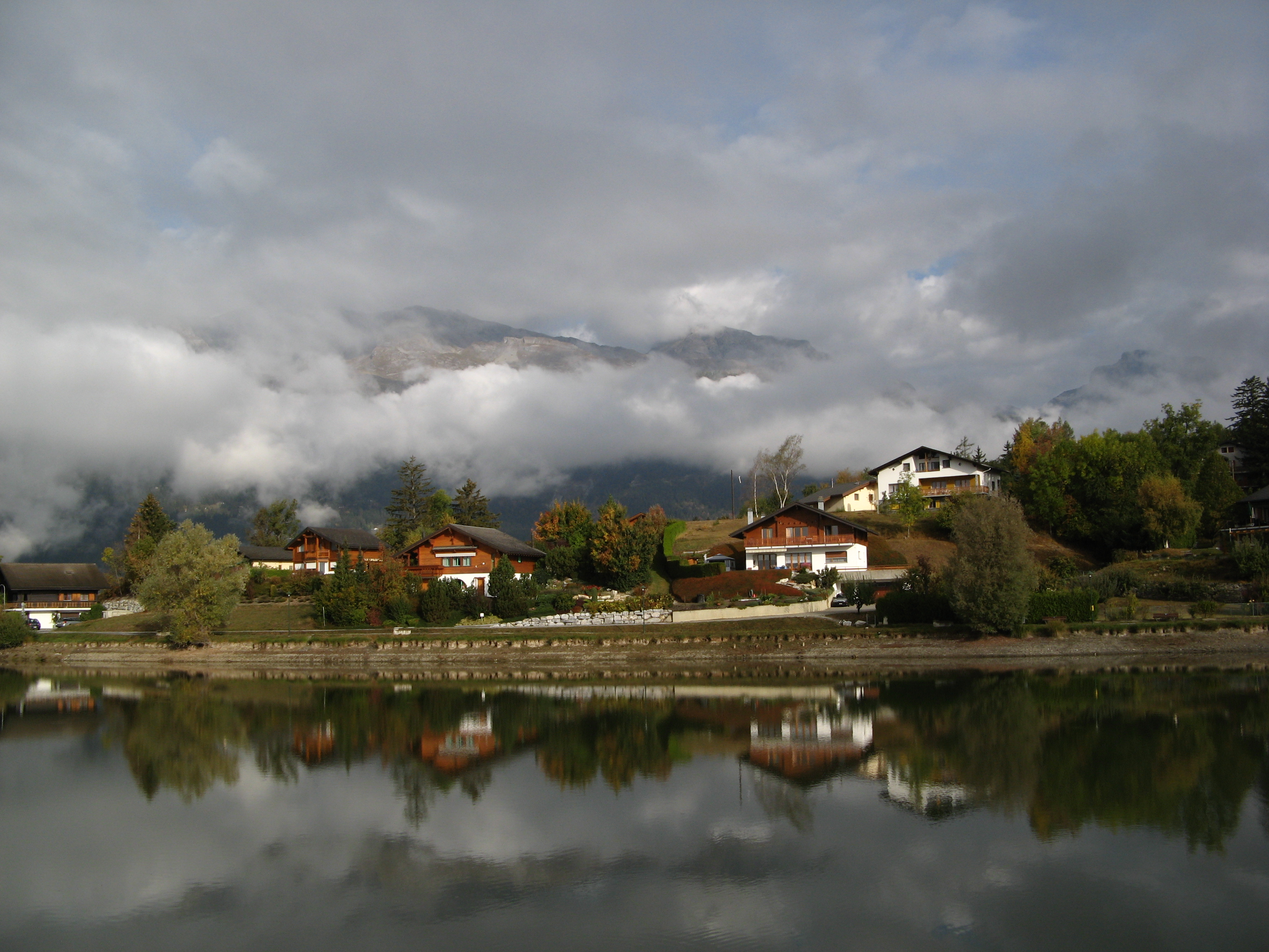 Le Louche, Lens, Valais, Switzerland